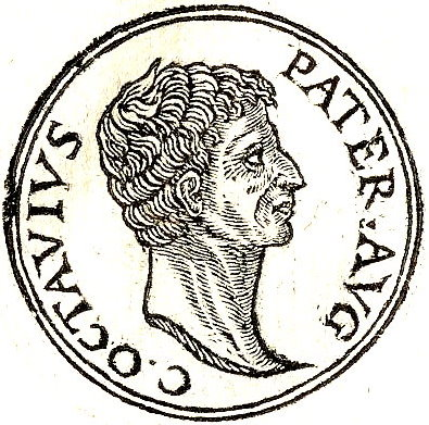 Gaius Octavius (about 100 BC - 58 BC) was the father of emperor Augustus.